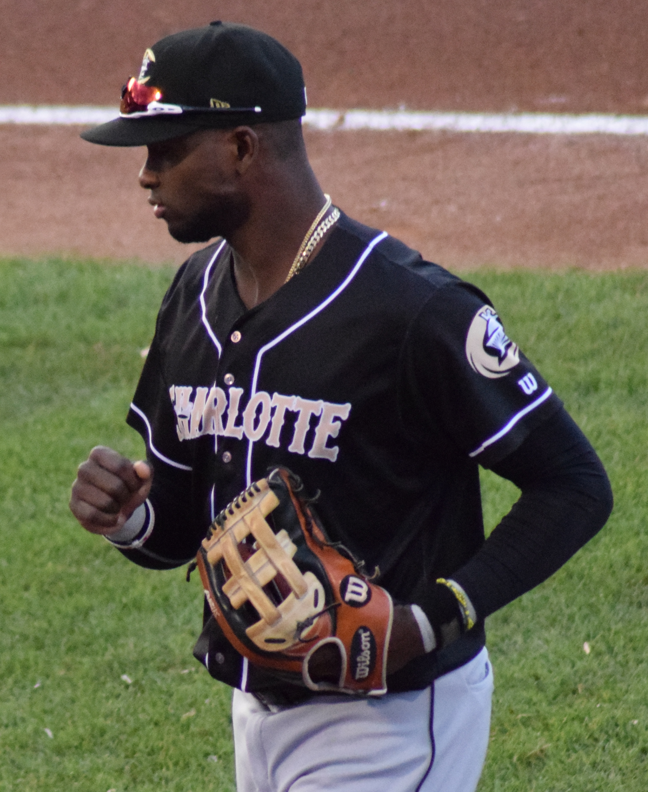 Luis Robert of the Charlotte Knights during a 2019 game at Coca-Cola Park in Allentown